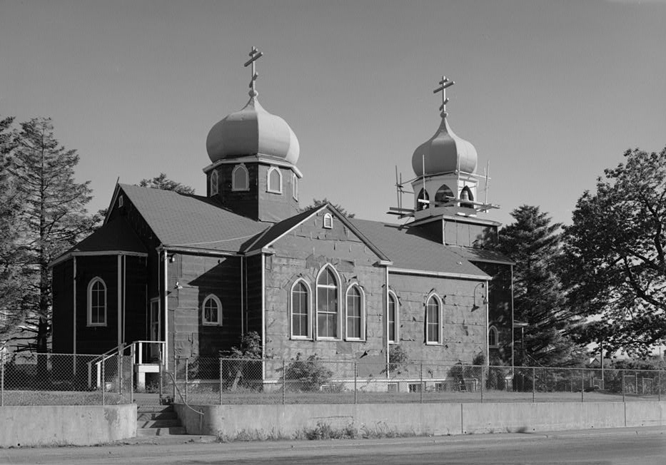 Northeastern side of the Holy Resurrection Church, a Russian Orthodox church in Kodiak, a city in the Kodiak Island Borough of the U.S. state of Alaska. Built in 1945, the church was added to the National Register of Historic Places on 12 December 1977.